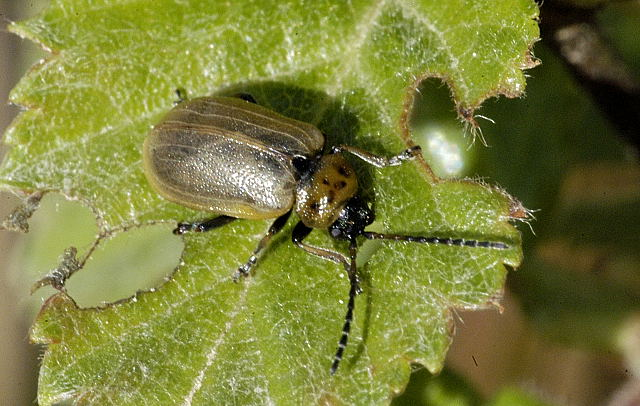 Picture taken in Commanster, Belgian High Ardennes . Species: Lochmaea capreae